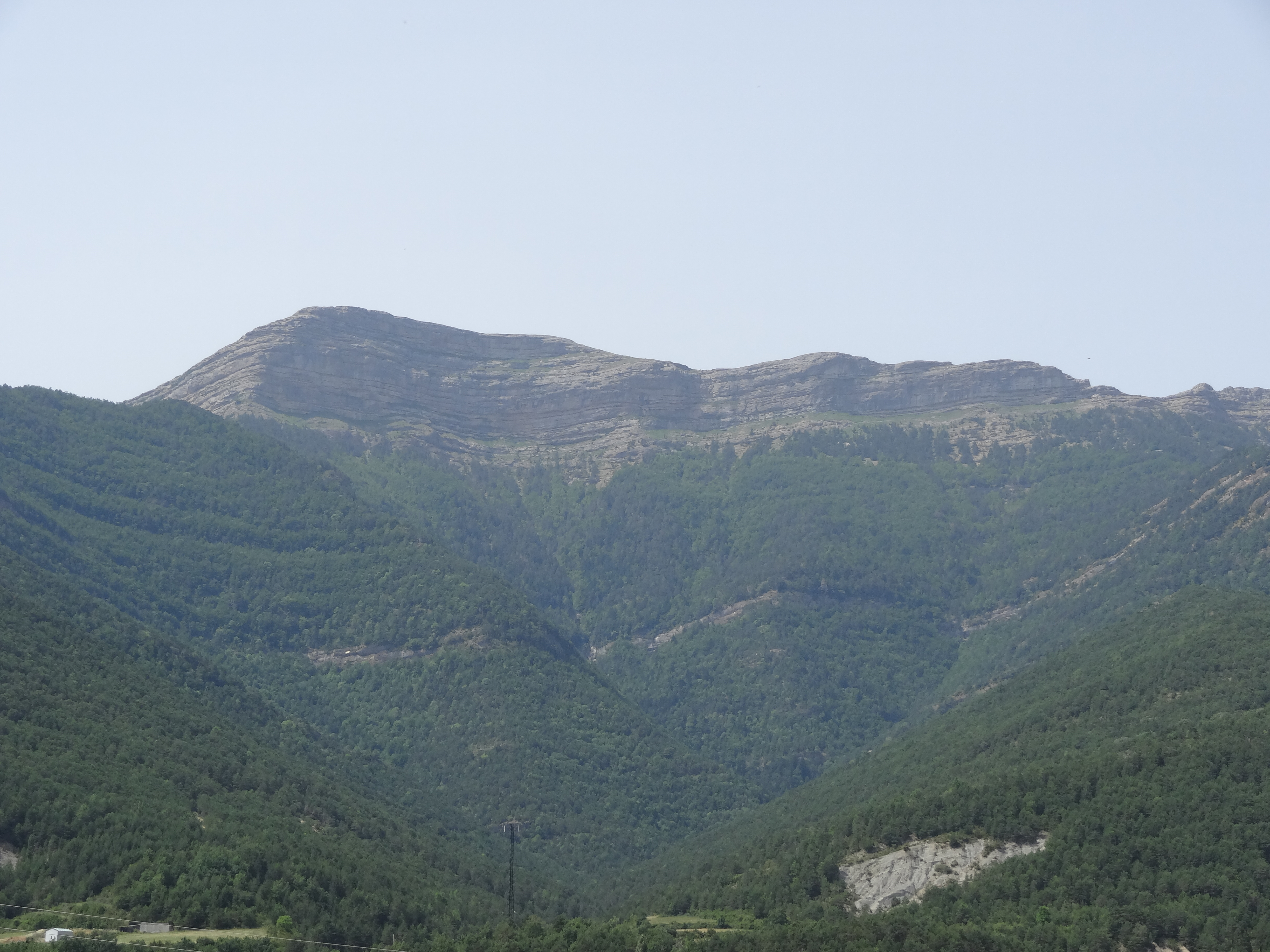 Peña Cancías, 1928 m, Sierra del Galardón, Aragon, Spain